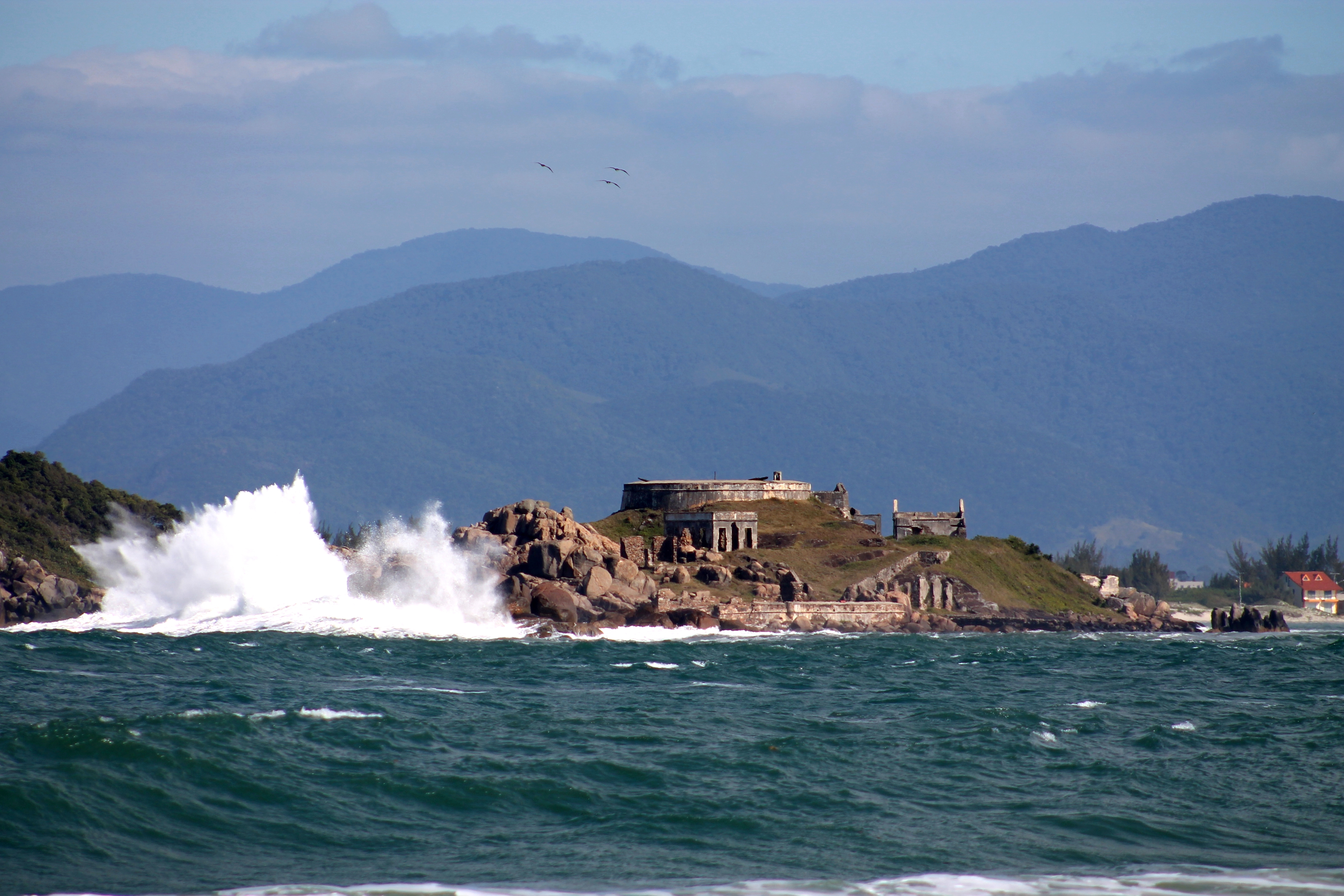 Nossa Senhora da Conceição Araçatuba building. Built between 1742 and 1744 on the island of Araçatuba to protect the access to South Bay harbor in Florianópolis, SC, Brazil. More information on